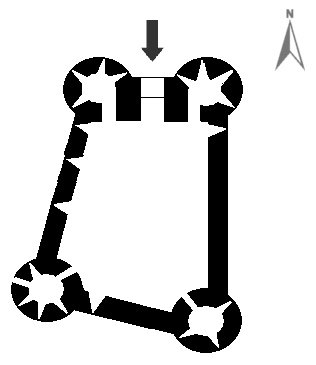 Original site plan of the Castle of Châteaurenard, Bouches-du-Rhône, France